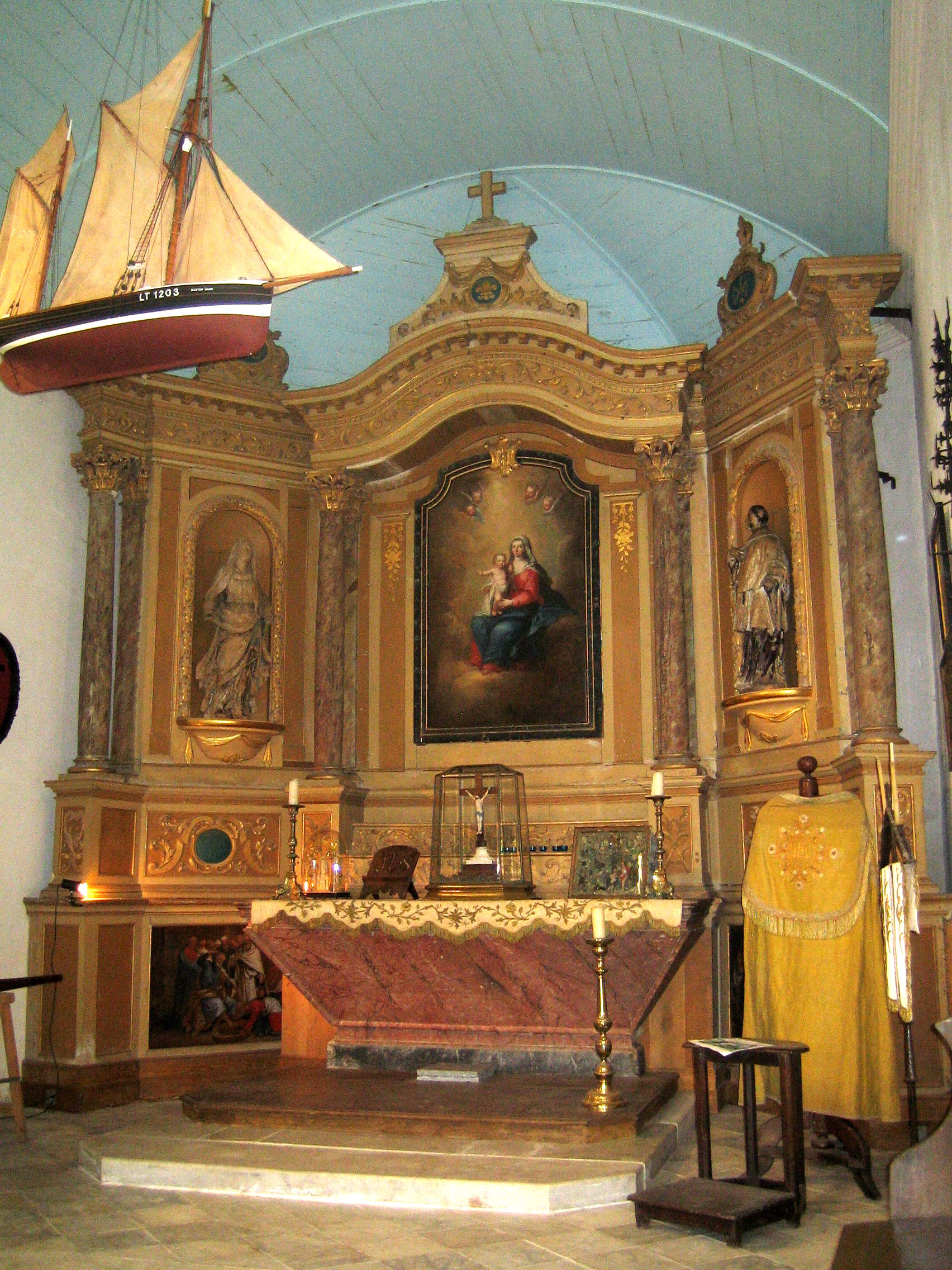 chapel of la ville bague